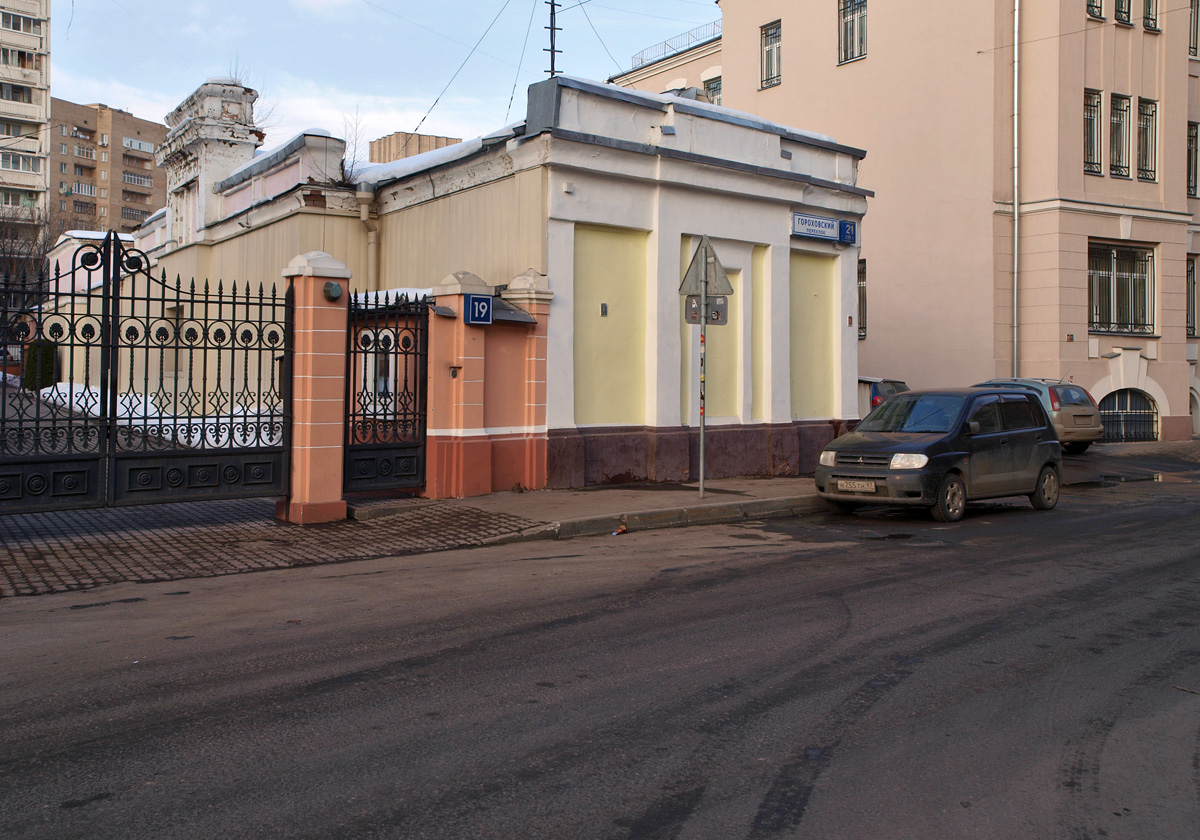 Gorokhovsky Lane, Moscow - Andriyaka School of Watercolours